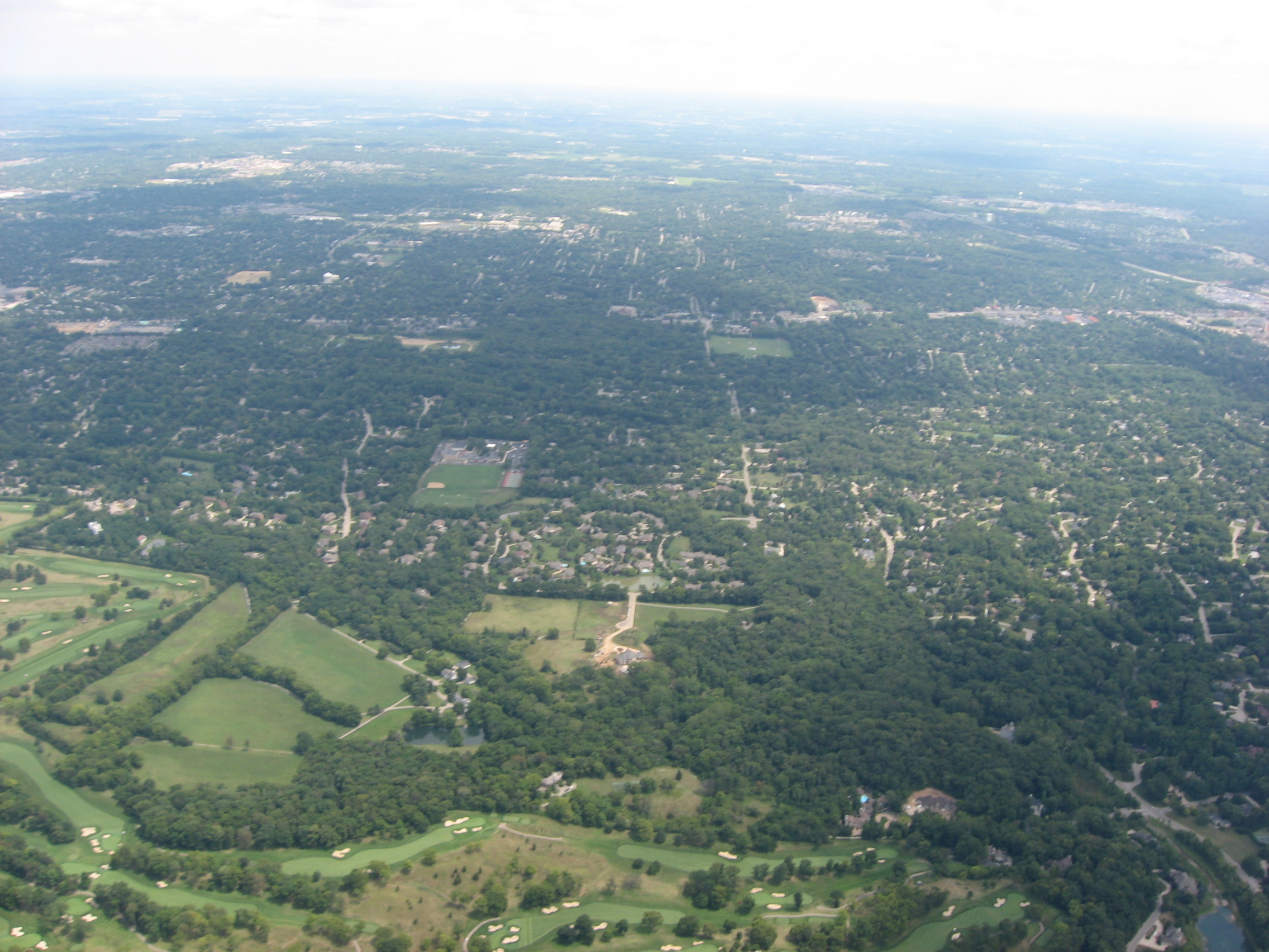 Aerial view of Woodbourne-Hyde Park, a census-designated place in Washington Township, Montgomery County, Ohio, United States. Picture taken from a Diamond Eclipse light airplane at an altitude of 3,420 feet MSL and a bearing of approximately 2590º.